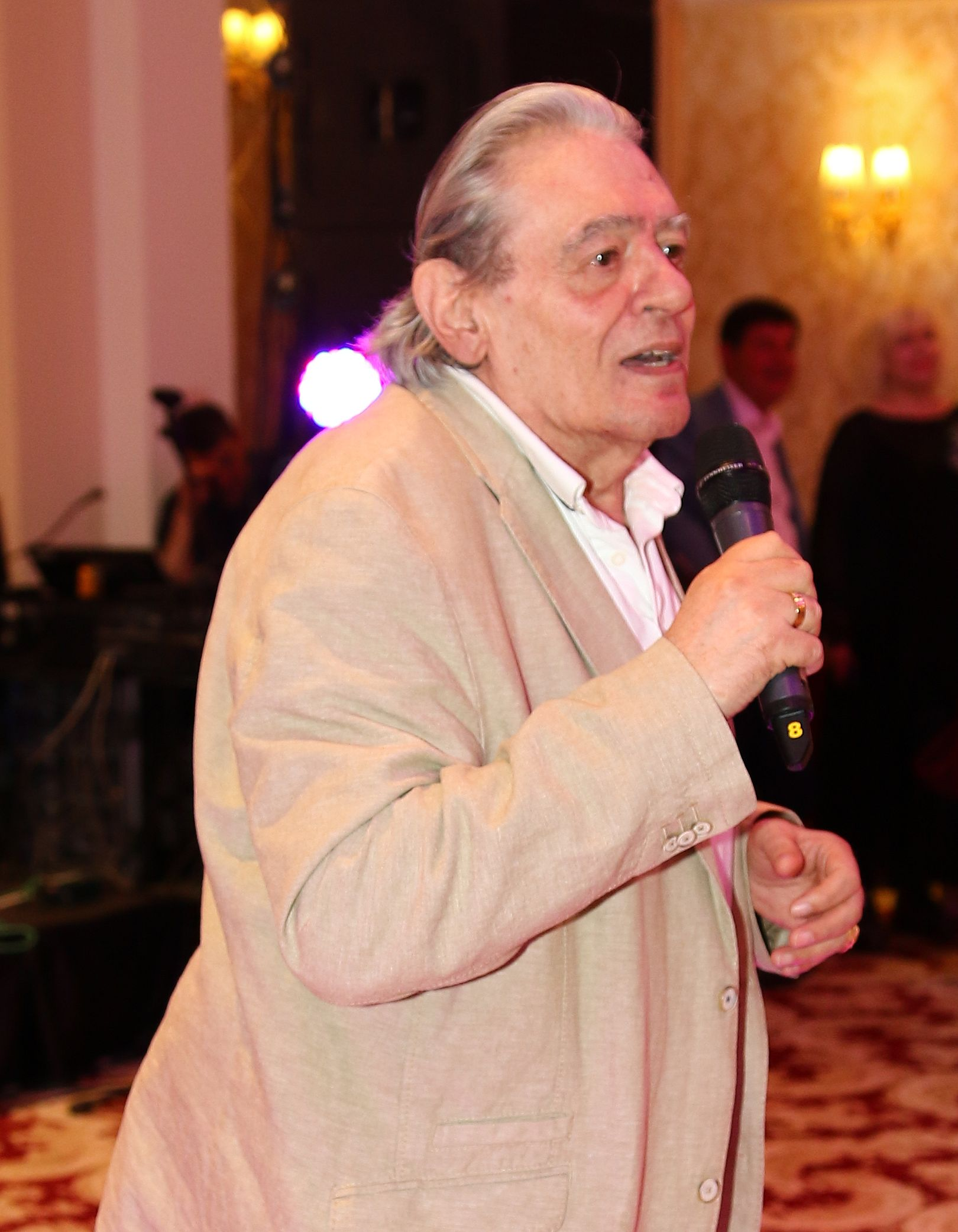 Michail Ivanov Belchev (born 13 August 1946) is a Bulgarian popular singer, songwriter, poet and director.